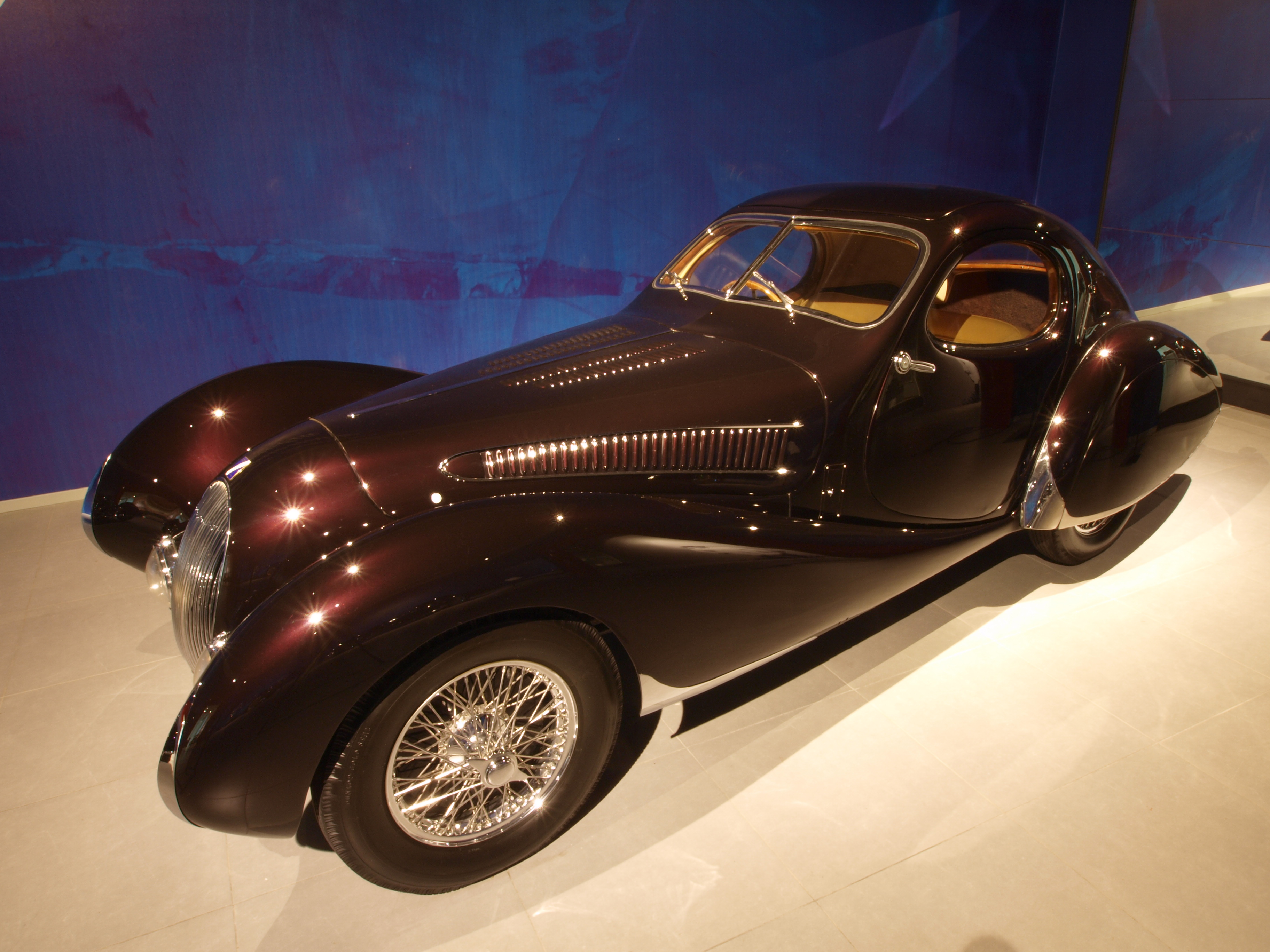 Photographed at the Louwman museum / Louwman Collection, The Netherlands.